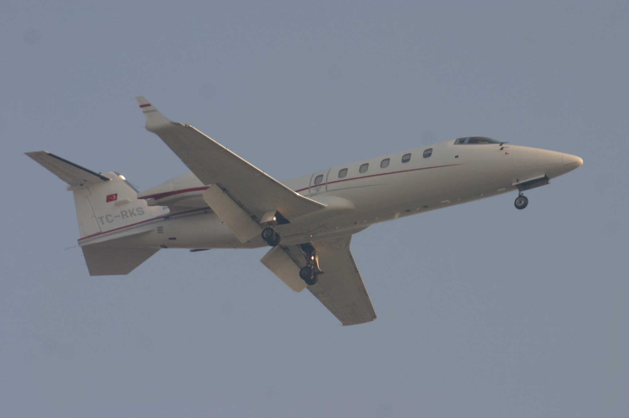 At Dubai